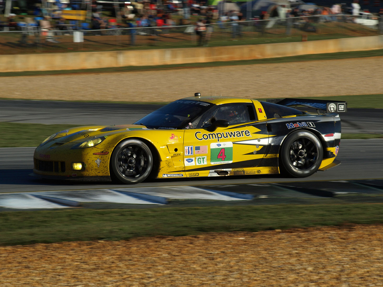 Jan Magnussen driving the Corvette Racing Chevrolet Corvette C6.R in the 2011 Petit Le Mans at Road Atlanta.